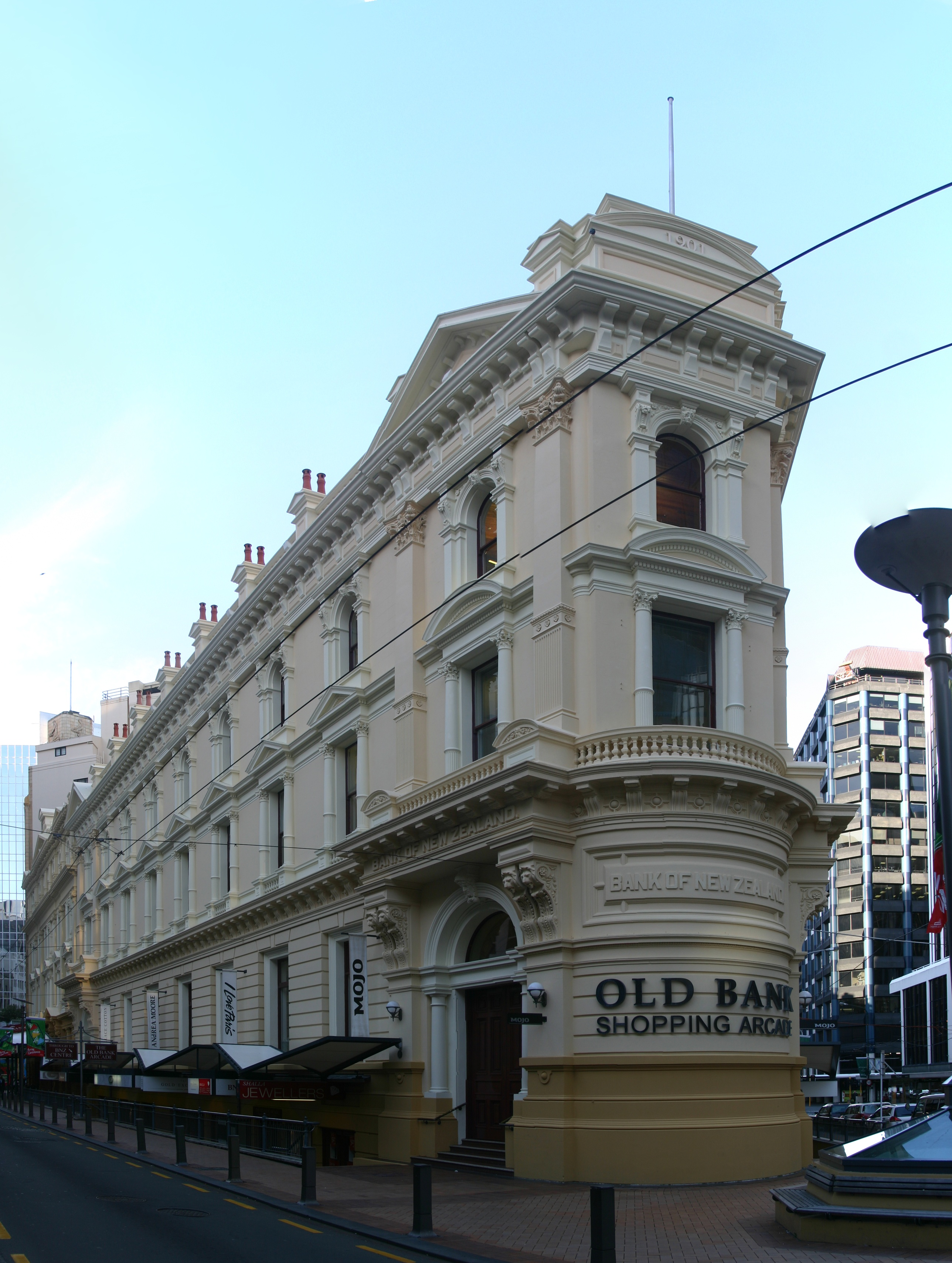 Bank of New Zealand building, now known as the "Old Bank Shopping Arcade", looking down the Lambton Quay side from the corner of Lambton Quay and Willis Street. Lambton Quay, Wellington, New Zealand. Panorama of seven images stitched together with Hugin using a Mercator projection.